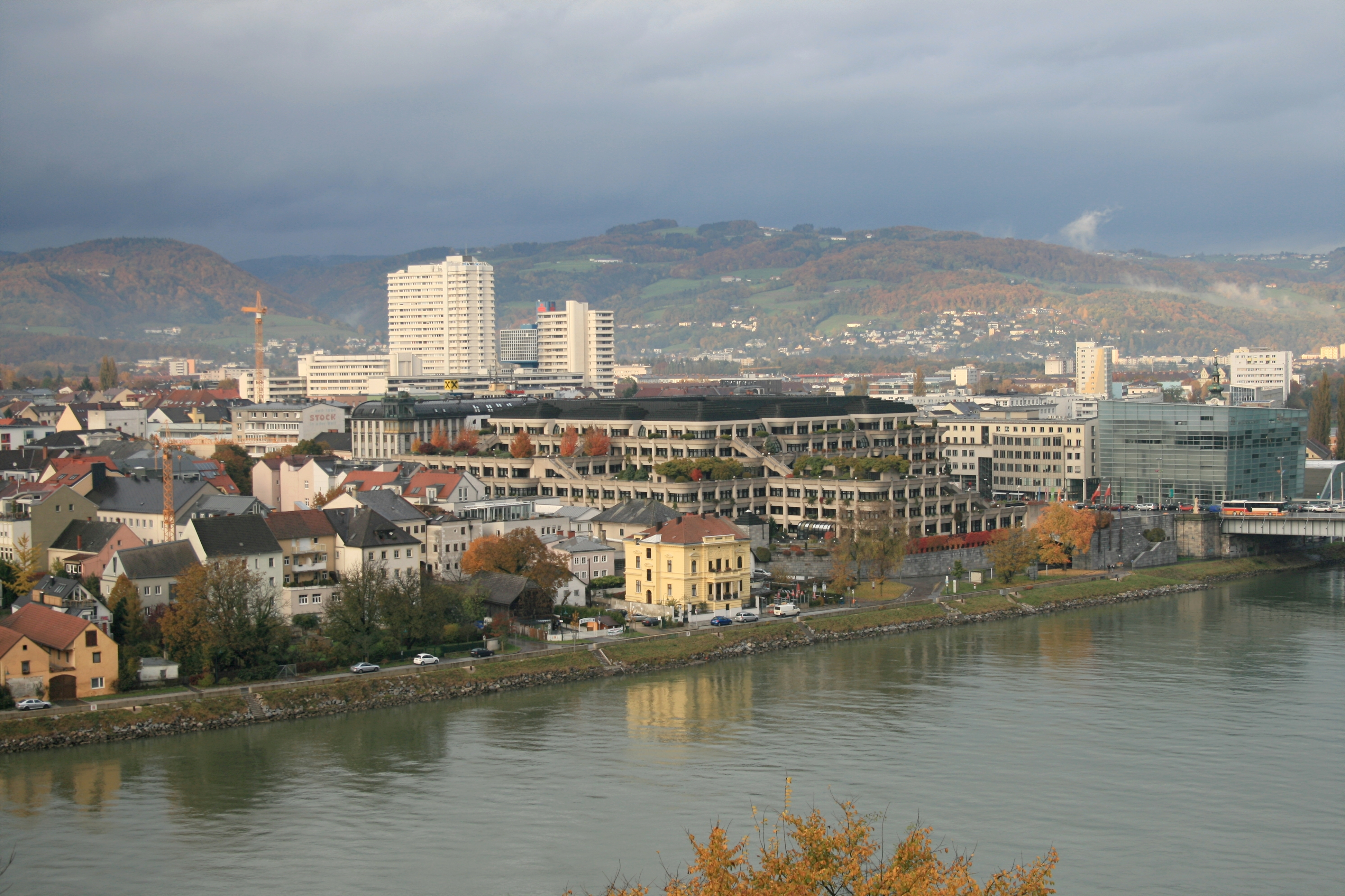 Austria, Linz, Danube